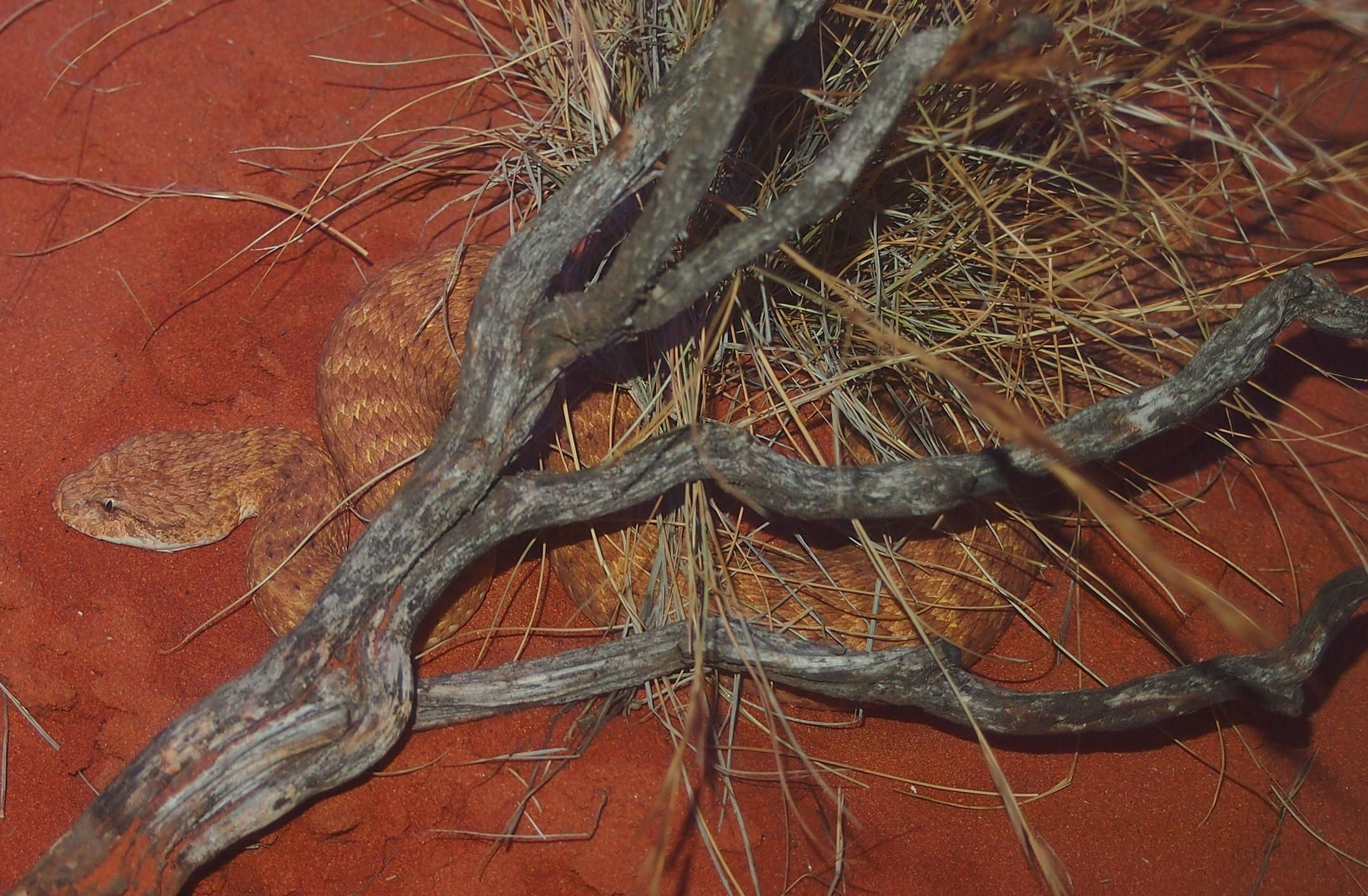 Acanthophis pyrrhus, Alice Springs Desert Park